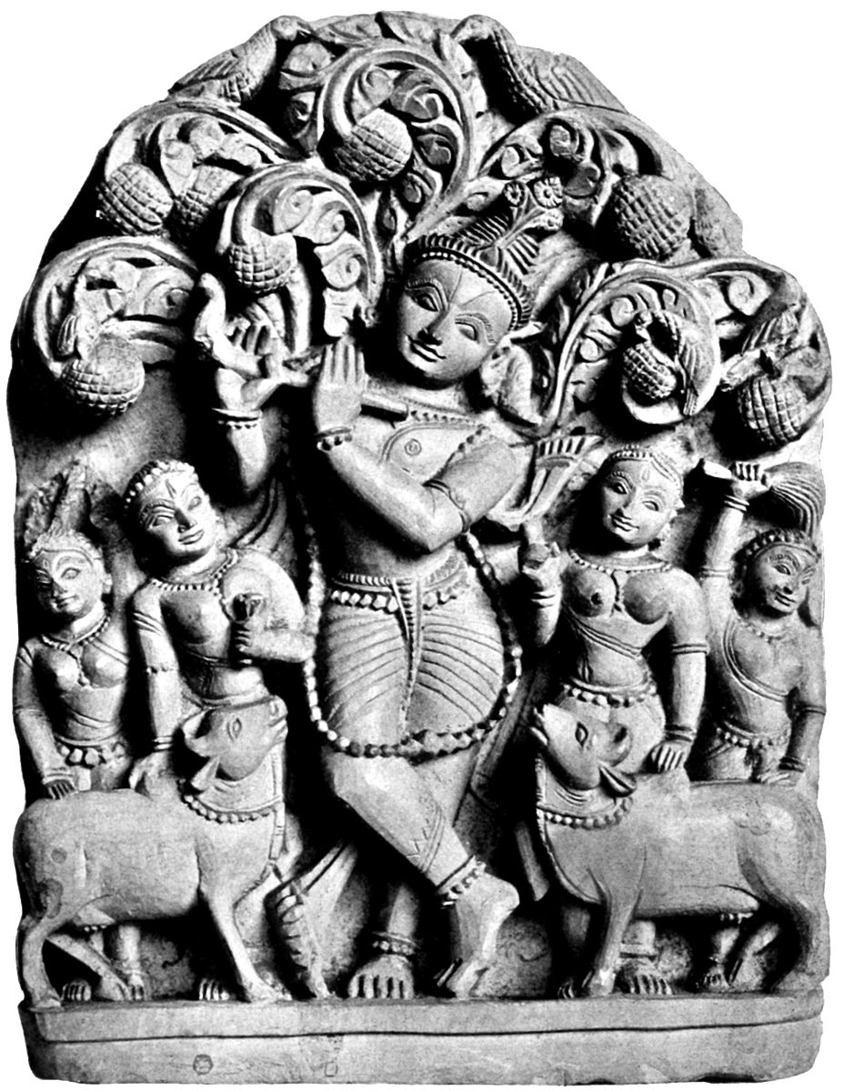 Krishna and the Gopis (herdsmaids), from a modern sculpture (1913), as published on the book Indian Myth and Legend, by Donald Alexander Mackenzie.